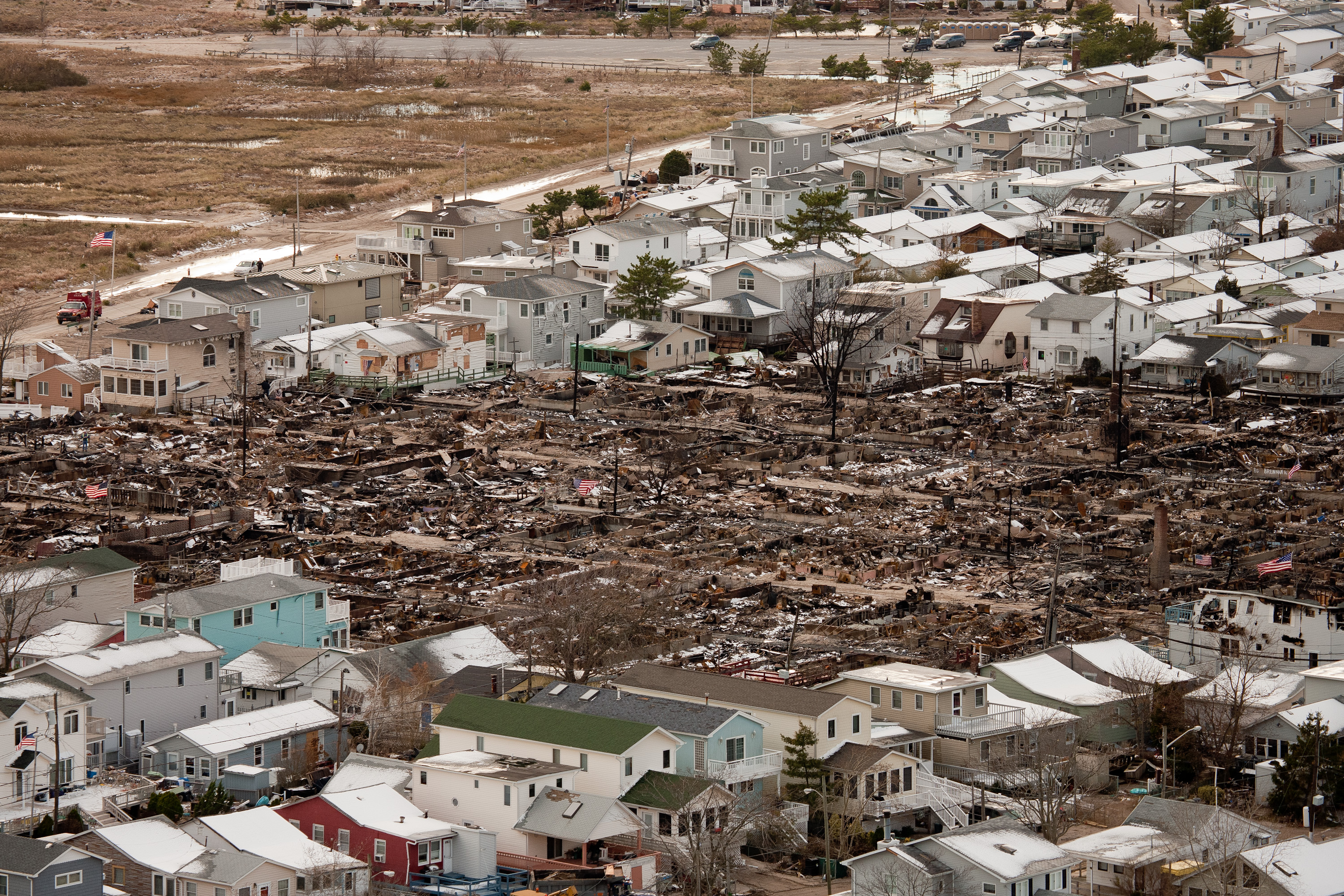 Aerial view of homes that were ravaged by fire in the community of Breezy Point, New York as a result of Hurricane Sandy.